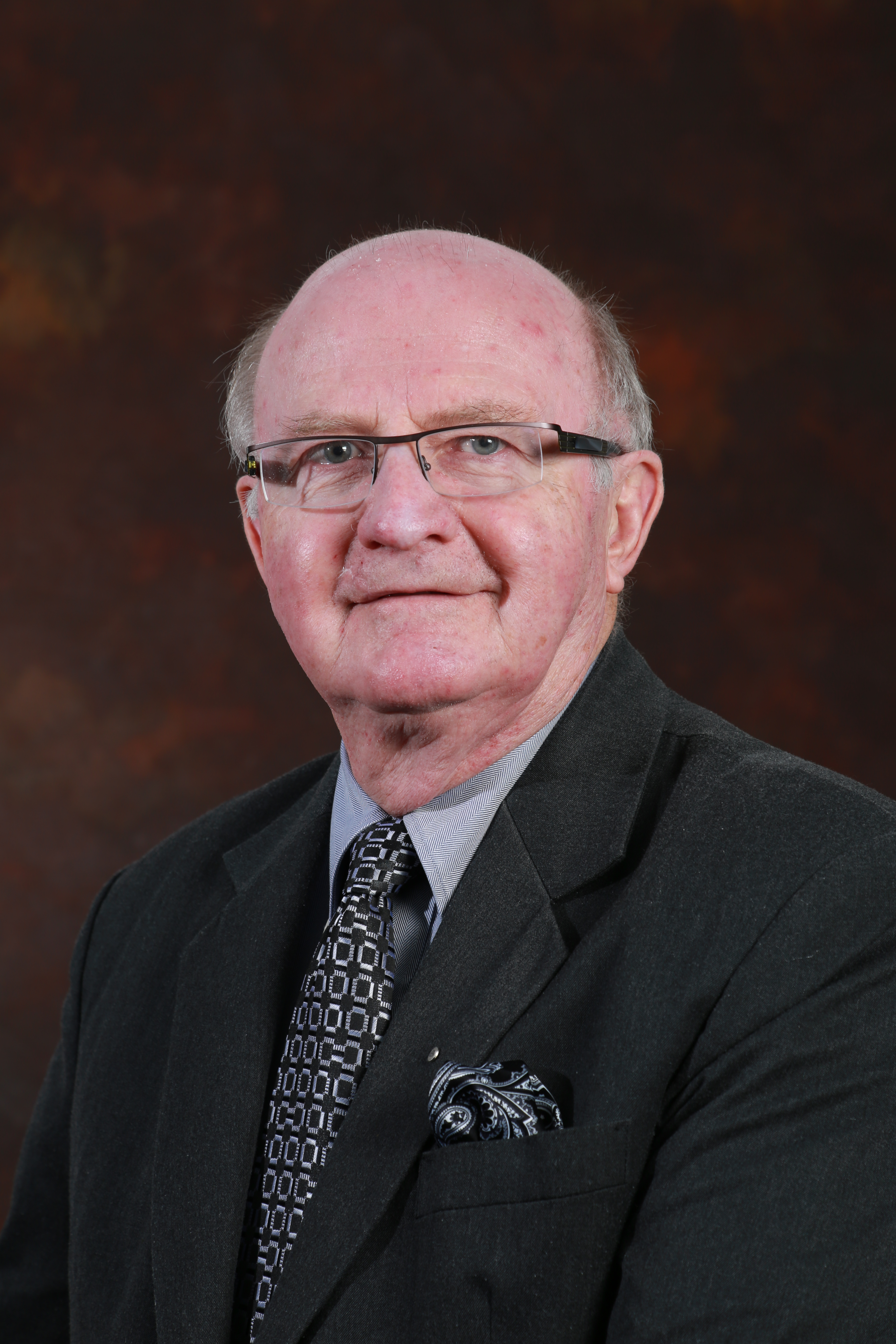 Member, ILRI Board of Trustees (photo credit: ILRI/Apollo Habtamu) April 2016